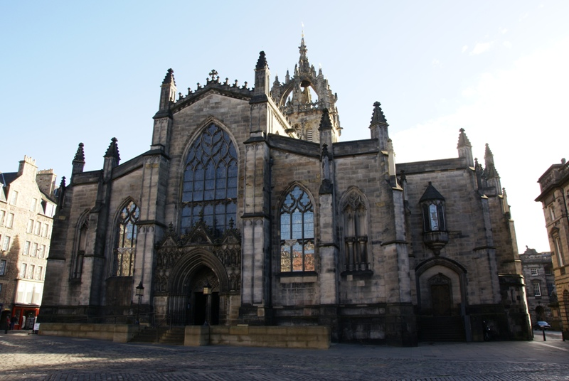 St Giles' Cathedral, Edinburgh, Scotland. West side.